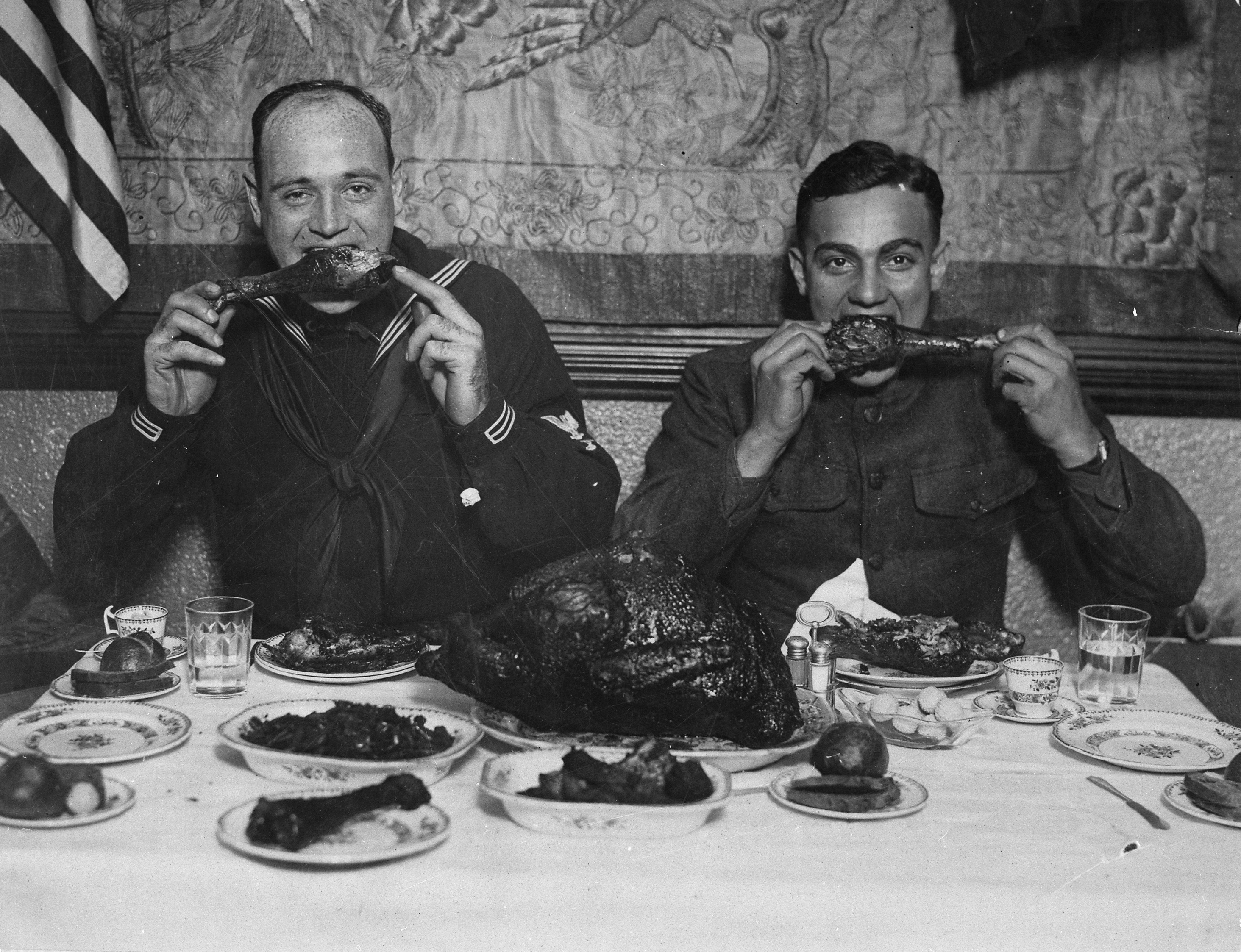 Thanksgiving cheer distributed for men in service. New York City turned host to the boys in service today and cared for every man in uniform. Ca. 1918. Underwood & Underwood. (War Dept. ) Exact Date Shot Unknown .